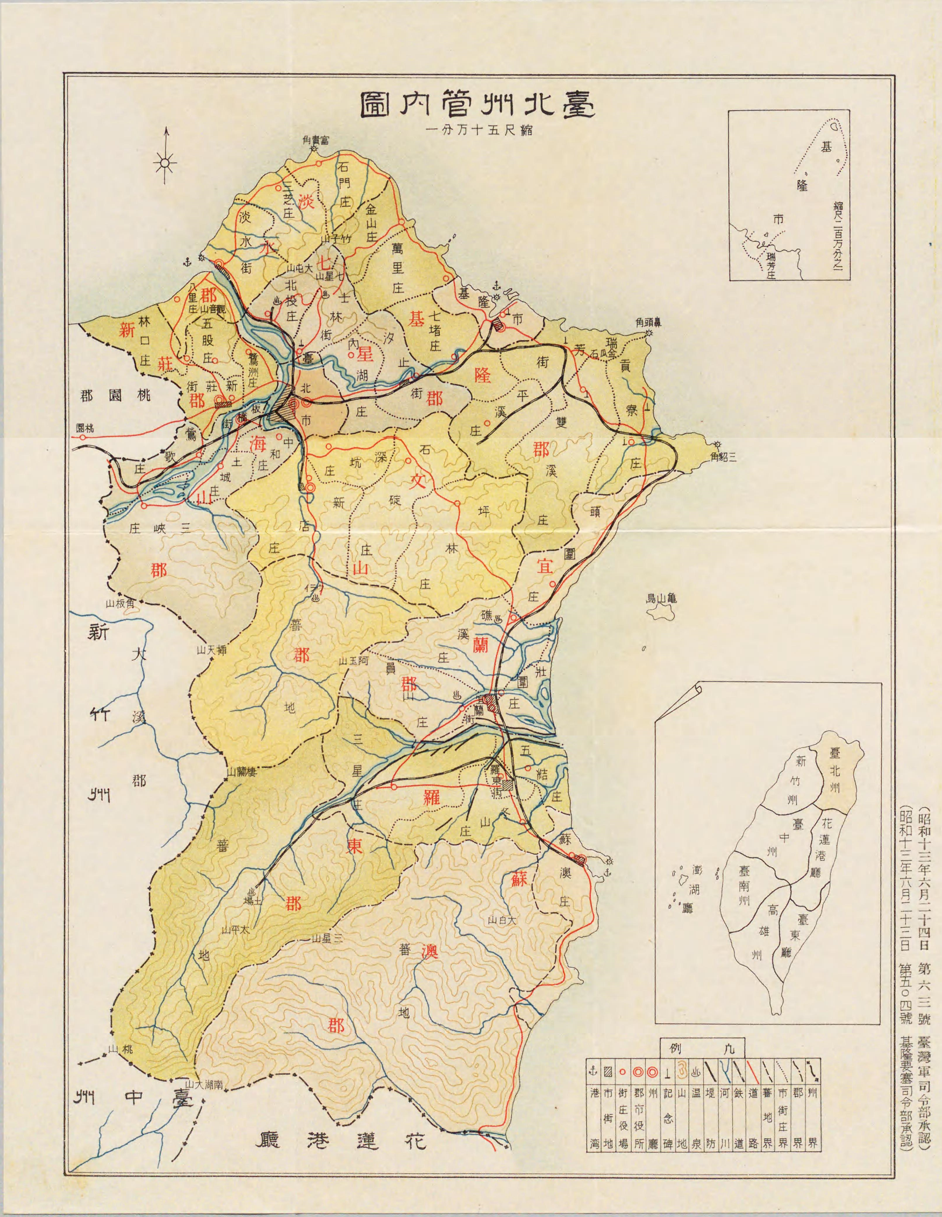 1938 map of Taihoku Prefecture